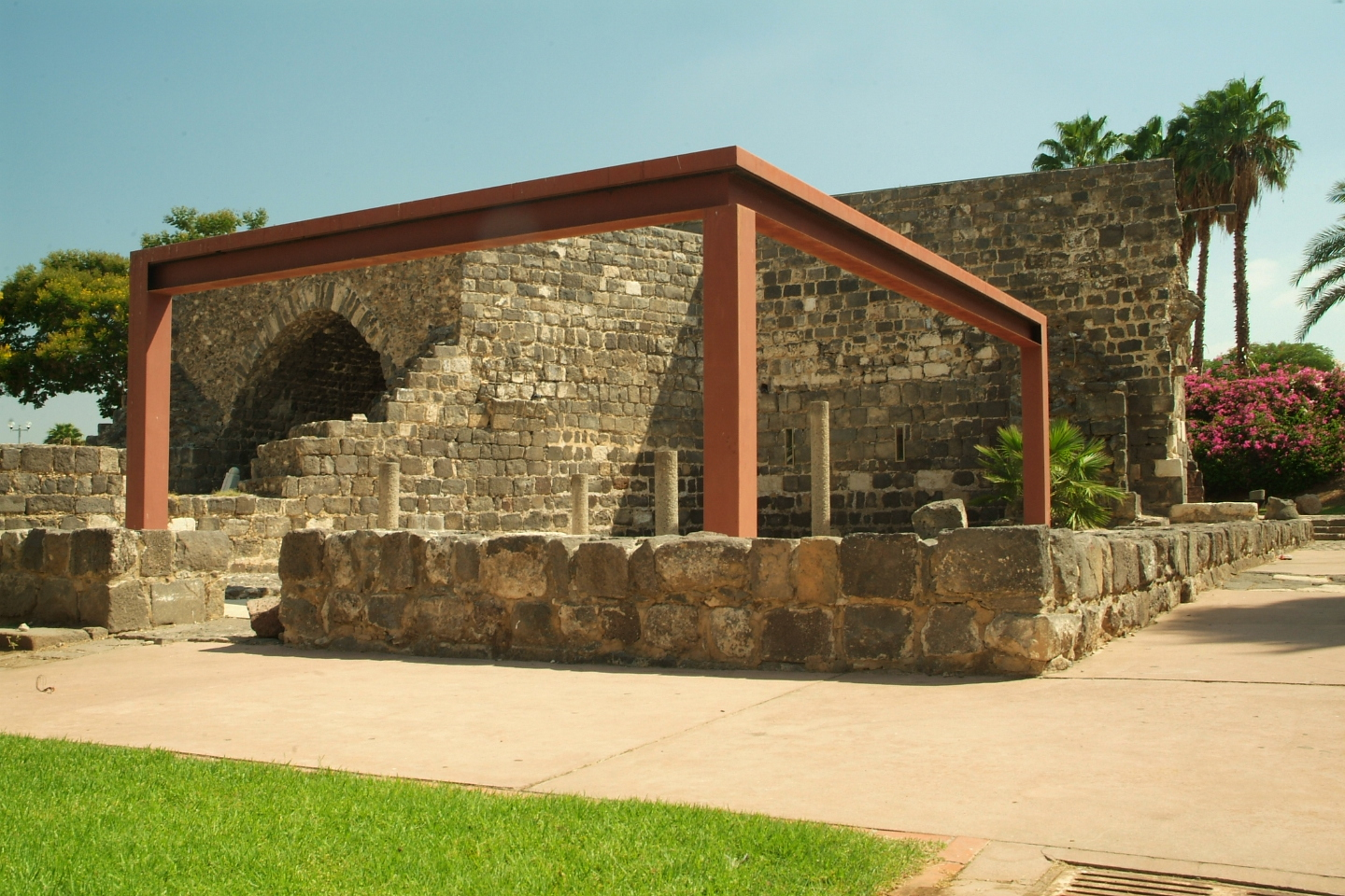 Archaeological garden tiberias גן ארכיאולוגי ברח' הבנים בטבריה